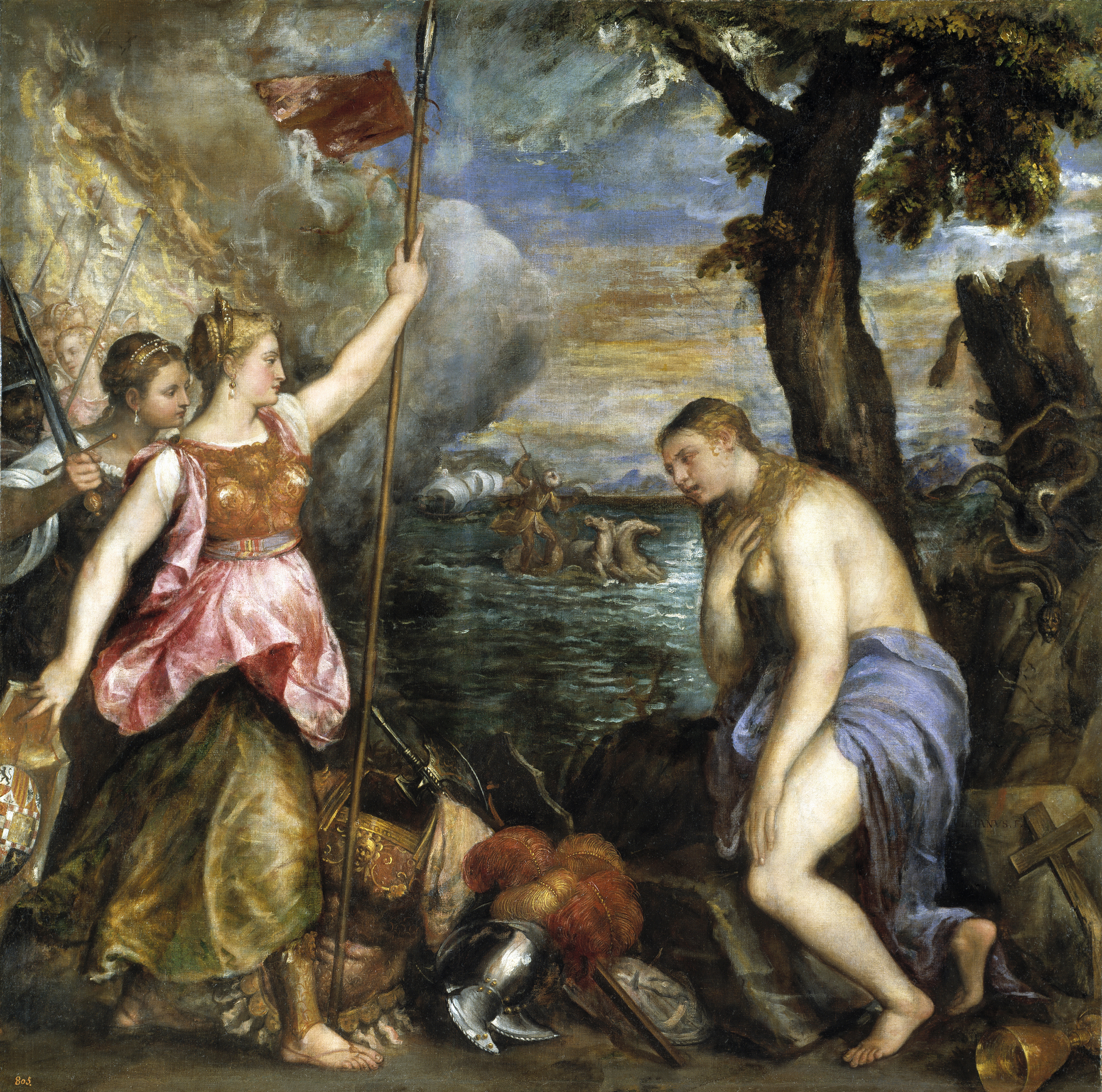 Titian, Religion saved by Spain, 1572-1575, oil on canvas, 168 x 168 cm, Prado Museum, Madrid, Spain. Source: Prado Museum Other titles: Spain succoring Religion or Religion succored by Spain